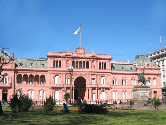 Casa Rosada, goverment building in Buenos Aires